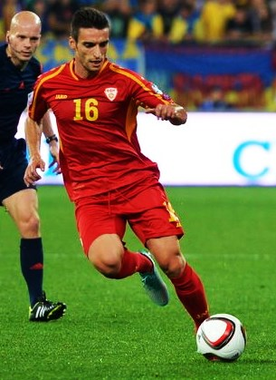 Nikola Gligorov